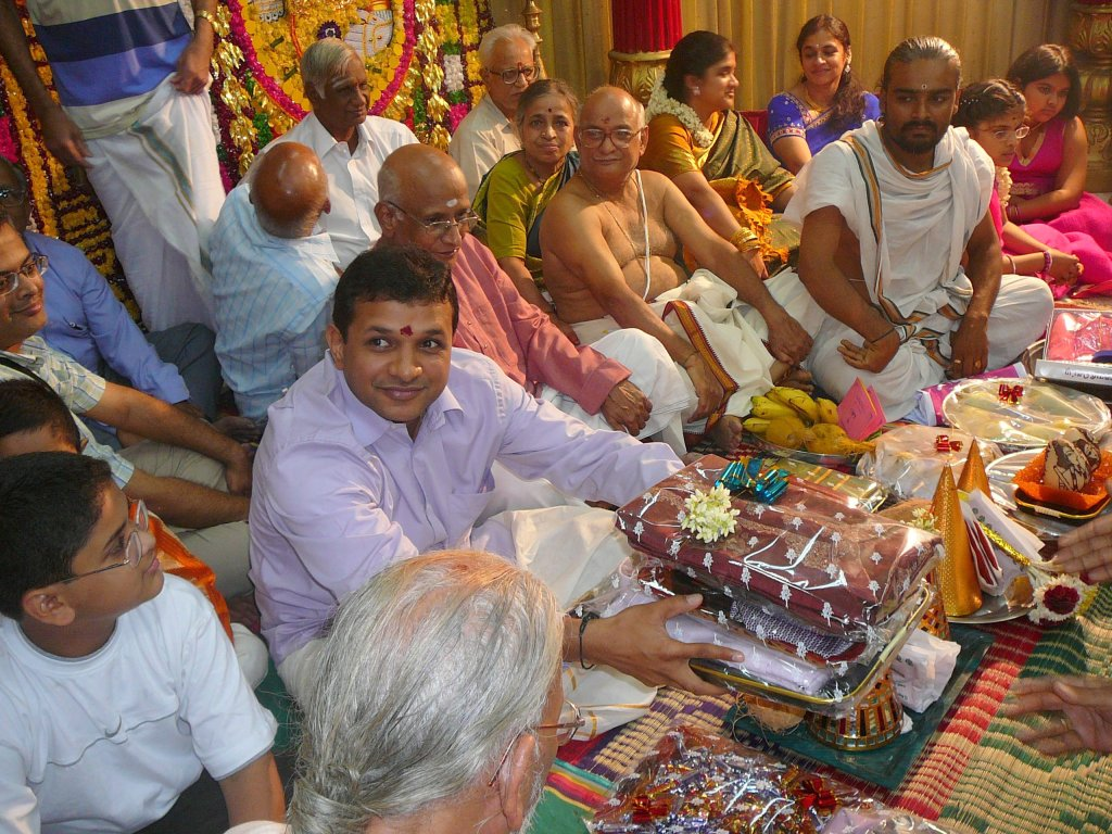 Gift giving during a South Indian wedding.